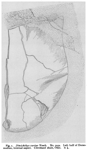 Dunkleosteus terrelli (jr synonym Dinichthys curuts) plate restoration